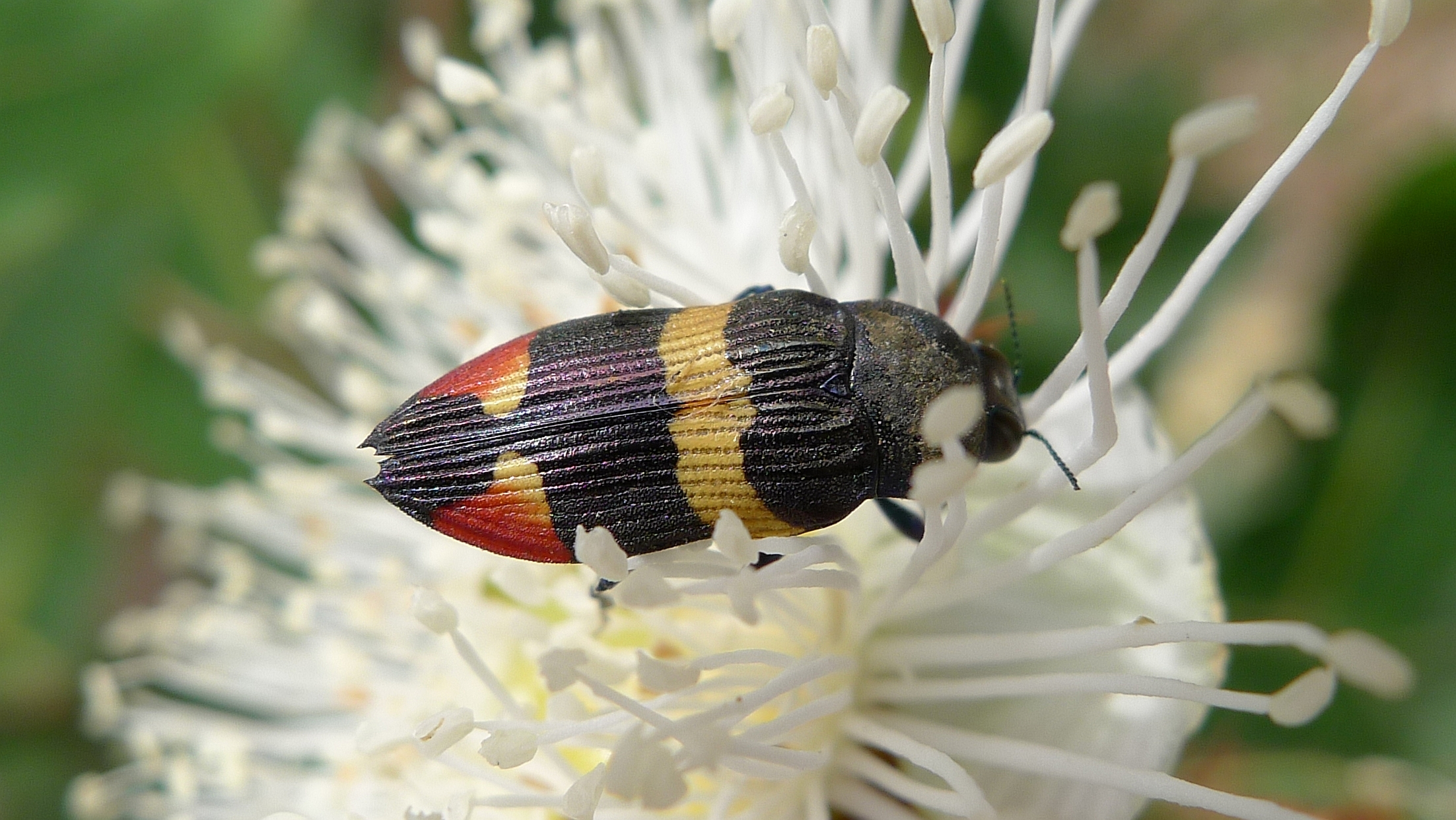 Jewel Beetle, Castiarina bella, family Buprestidae, on Angophora hispida. Burnum Burnum Reserve, Jannali NSW Australia, December 2013.